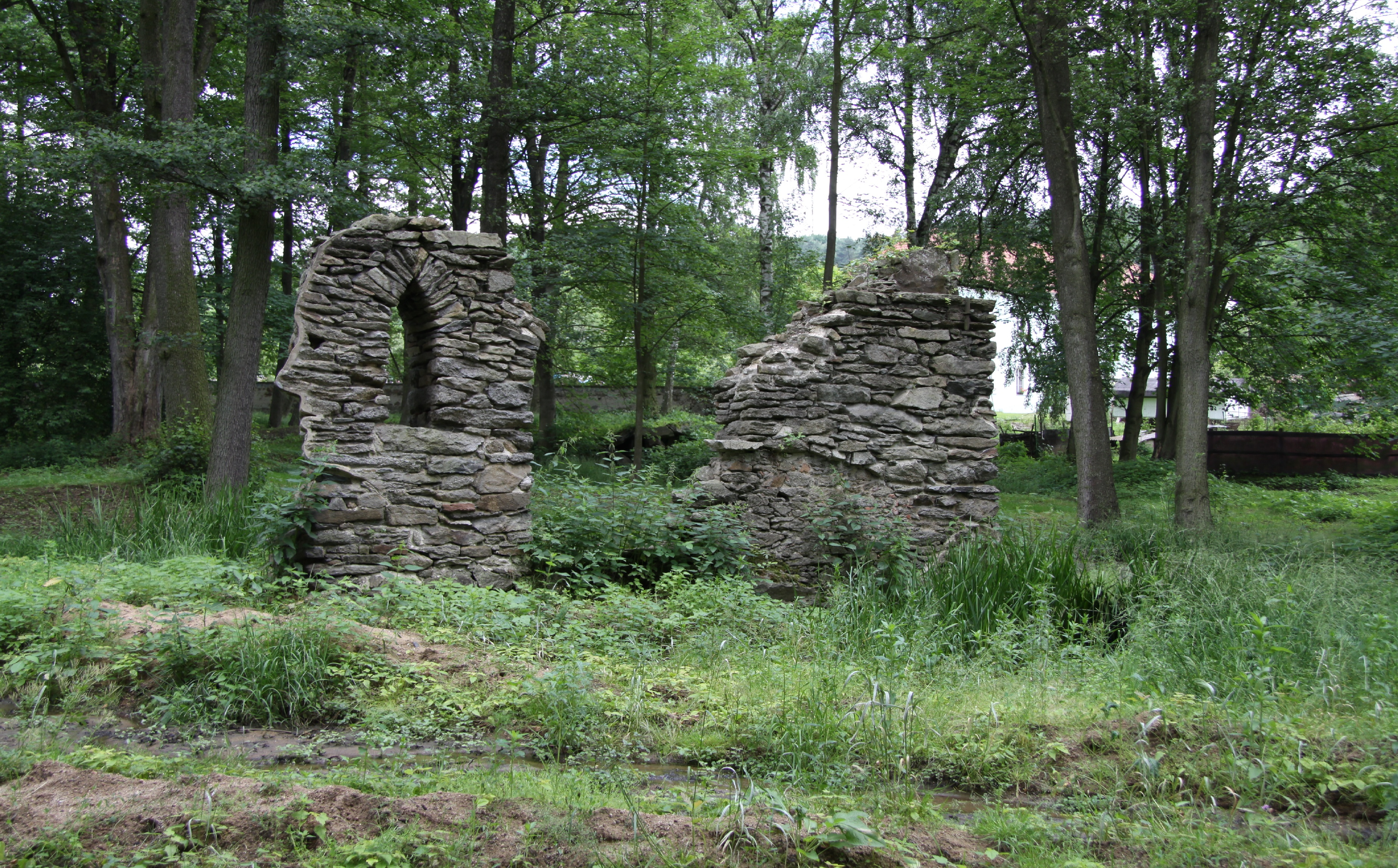 Kladruby village in Strakonice District, Czech Republic